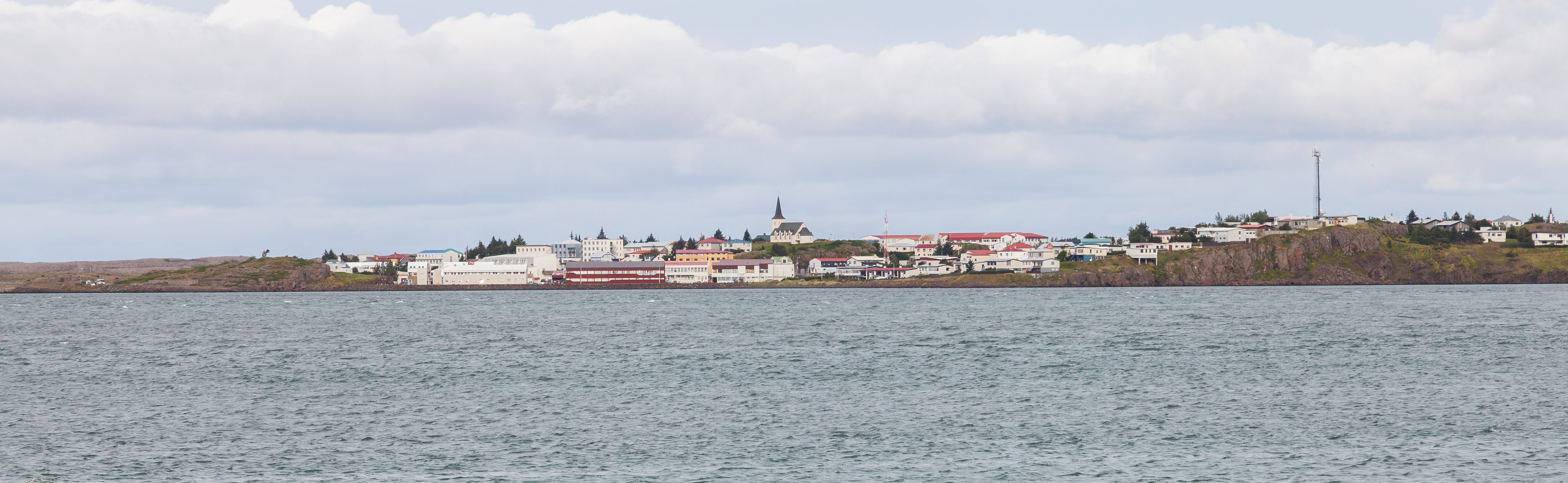 View of Borgarnes, Vesturland, Iceland